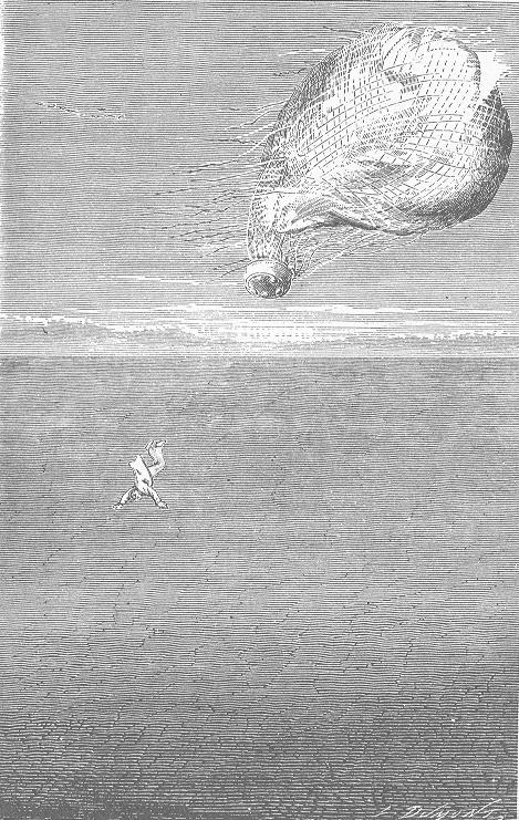 Illustration for Jules Vernes "Five Weeks in A Balloon"